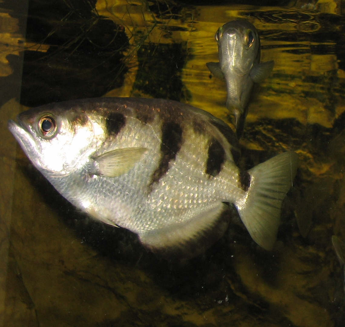 Archer Fish (Toxotes jaculatrix) at Newport Aquarium